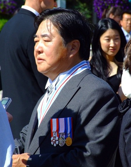 Author: Evans